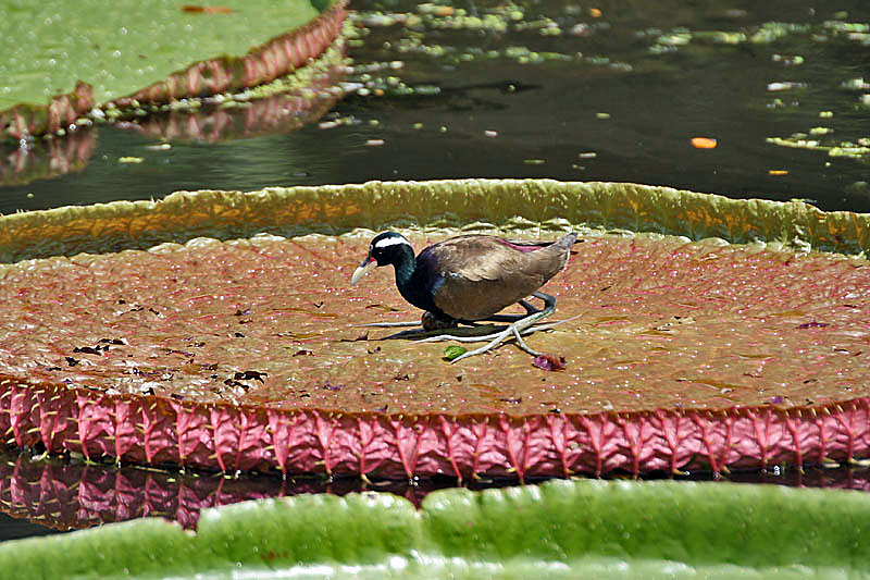 Bronze-winged Jacana Metopidius indicus on a leaf of Victoria amazonica in Kolkata, West Bengal, India.